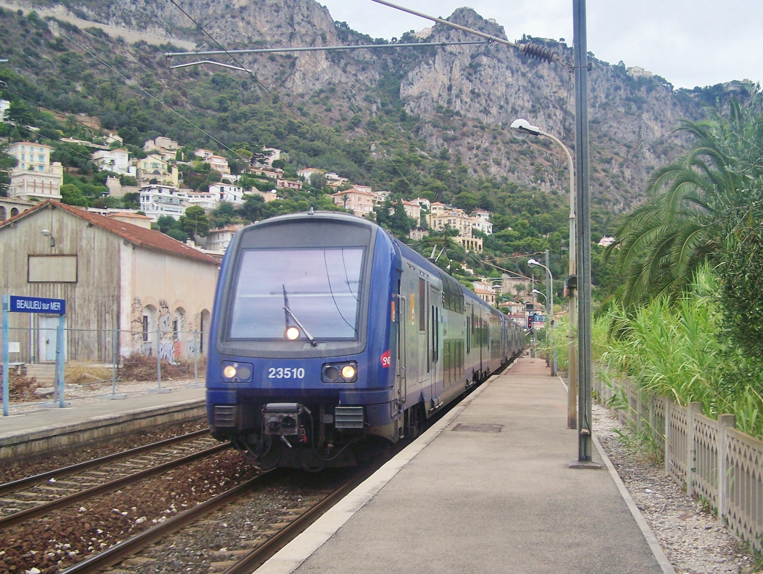 French regional joining Ventimiglia (Italy) to Nice and forwards, is to leave Beaulieu sur Mer station, in Alpes-Maritimes.